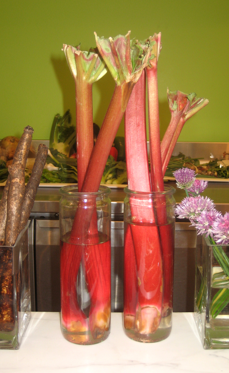 Rhubarb in Boston.